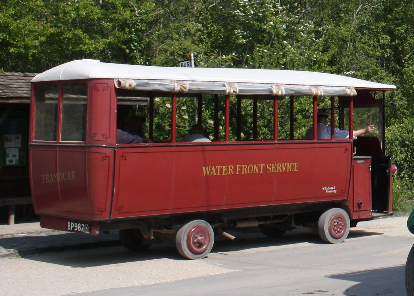 Replica 1938 Shelvoke and Drewry Tramocar (reg. BP9822), pictured at the Amberley Museum & Heritage Centre in Amberley, West Sussex.